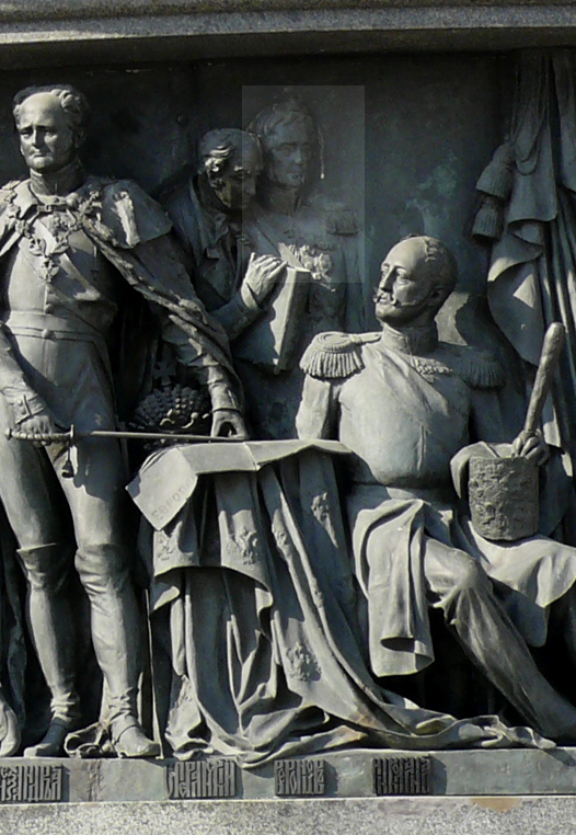 Mikhail Vorontsov on the Monument «Millennium of Russia» in Veliky Novgorod